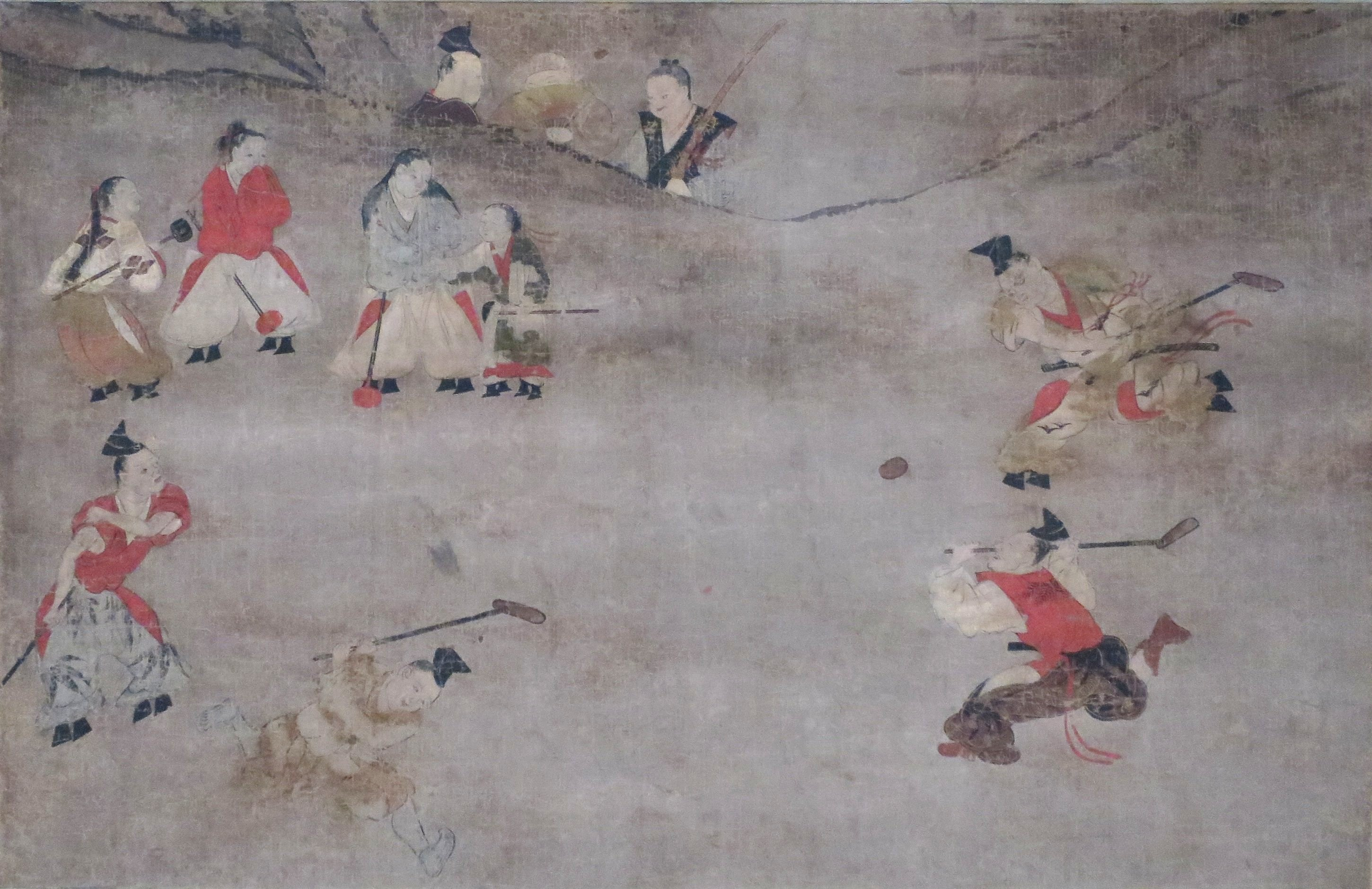 Dakyu (ball game), Muromachi period, 16th century, color on paper, Tokyo National Museum